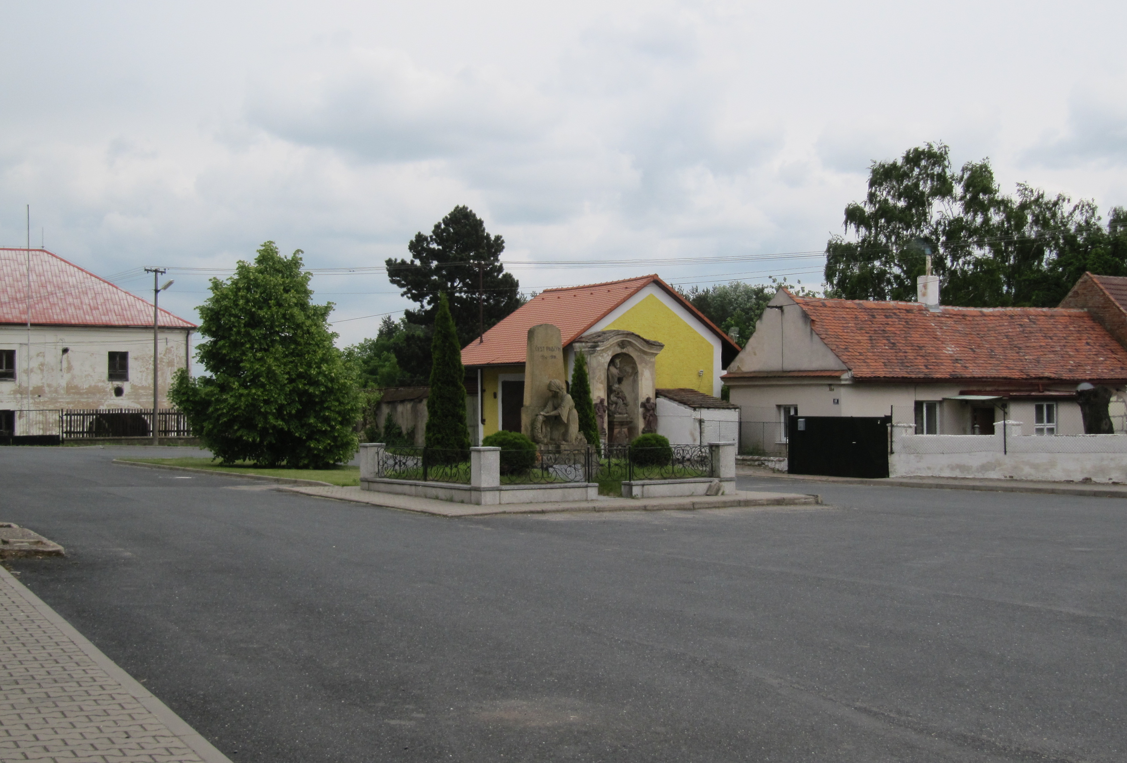 Třebovle, Kolín District, Czech Republic.